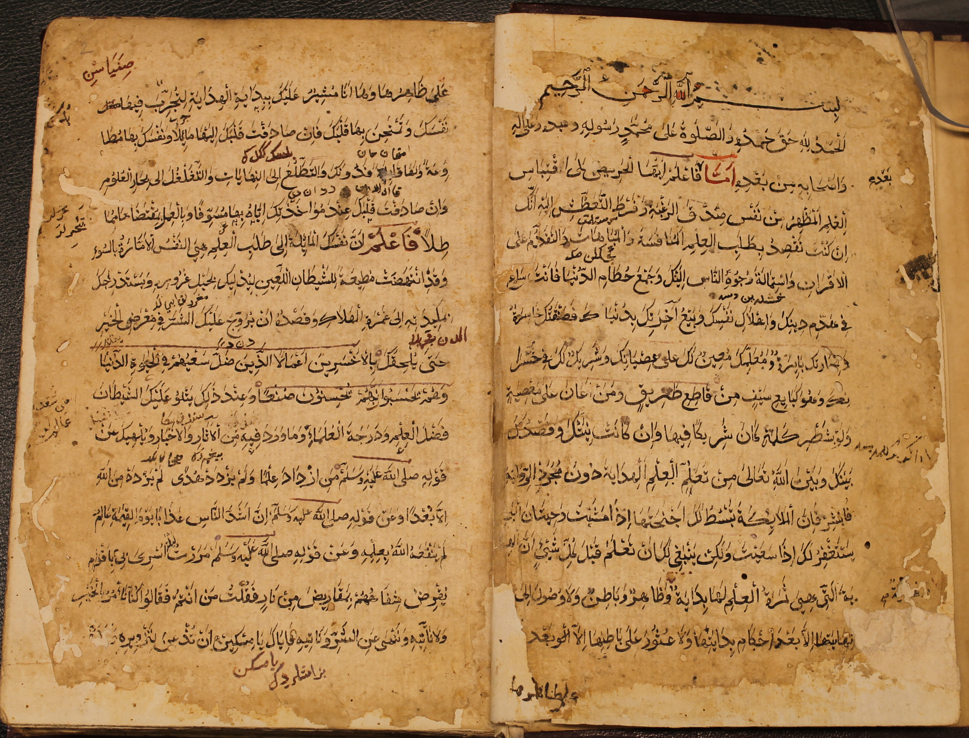 Bidāyat al-hidāya, dated AH 800 (AD 1397). British Library, Add 9517/1, ff. 1v-2r noc